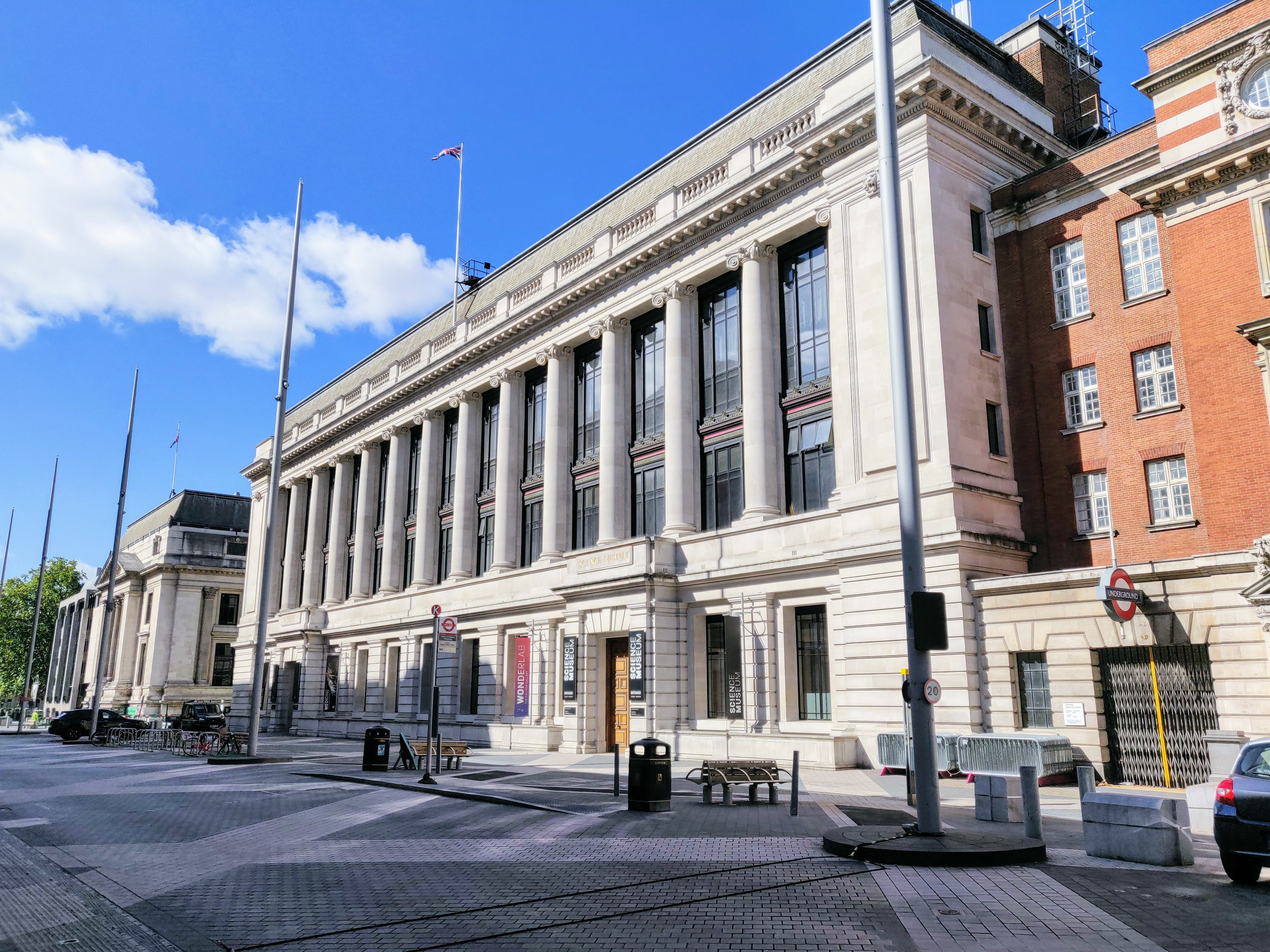 The Science Museum, London, as seen from Exhibition Road